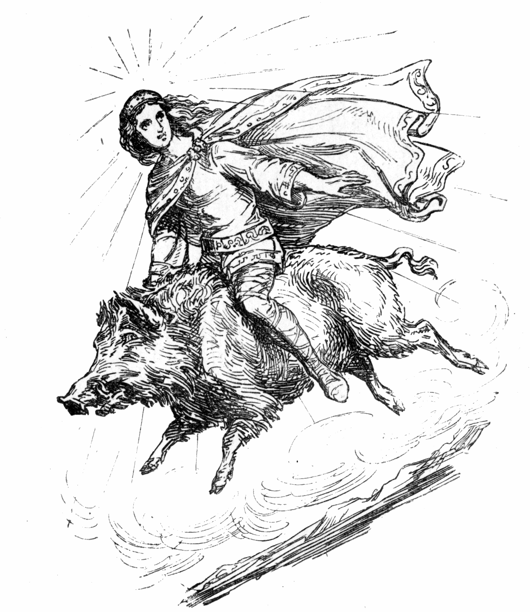 The god Freyr, riding his boar, Gullinbursti